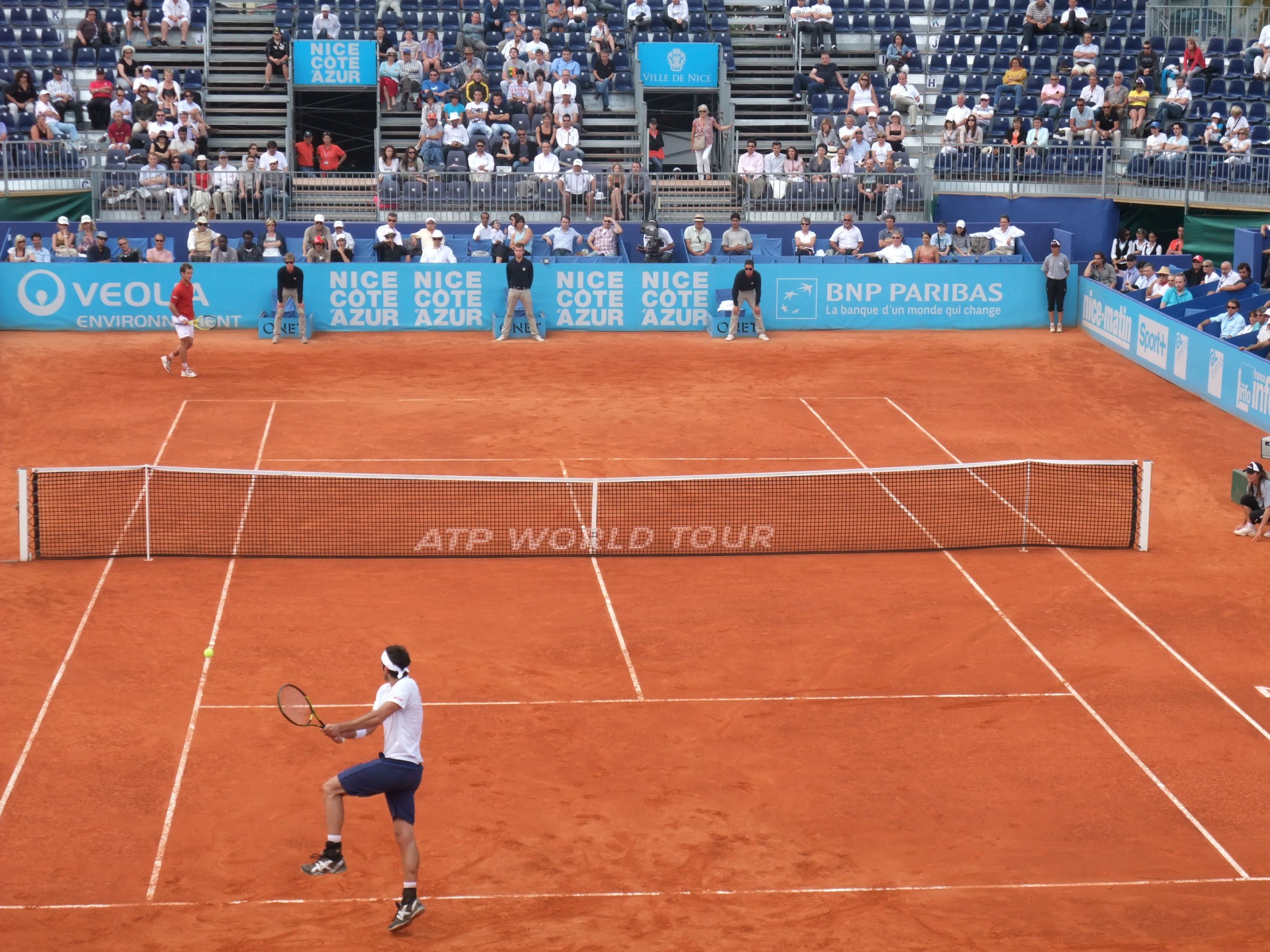 2010 Open de Nice Côte d’Azur - Semi-Final between Richard Gasquet (France) and Potito Starace (Italy).